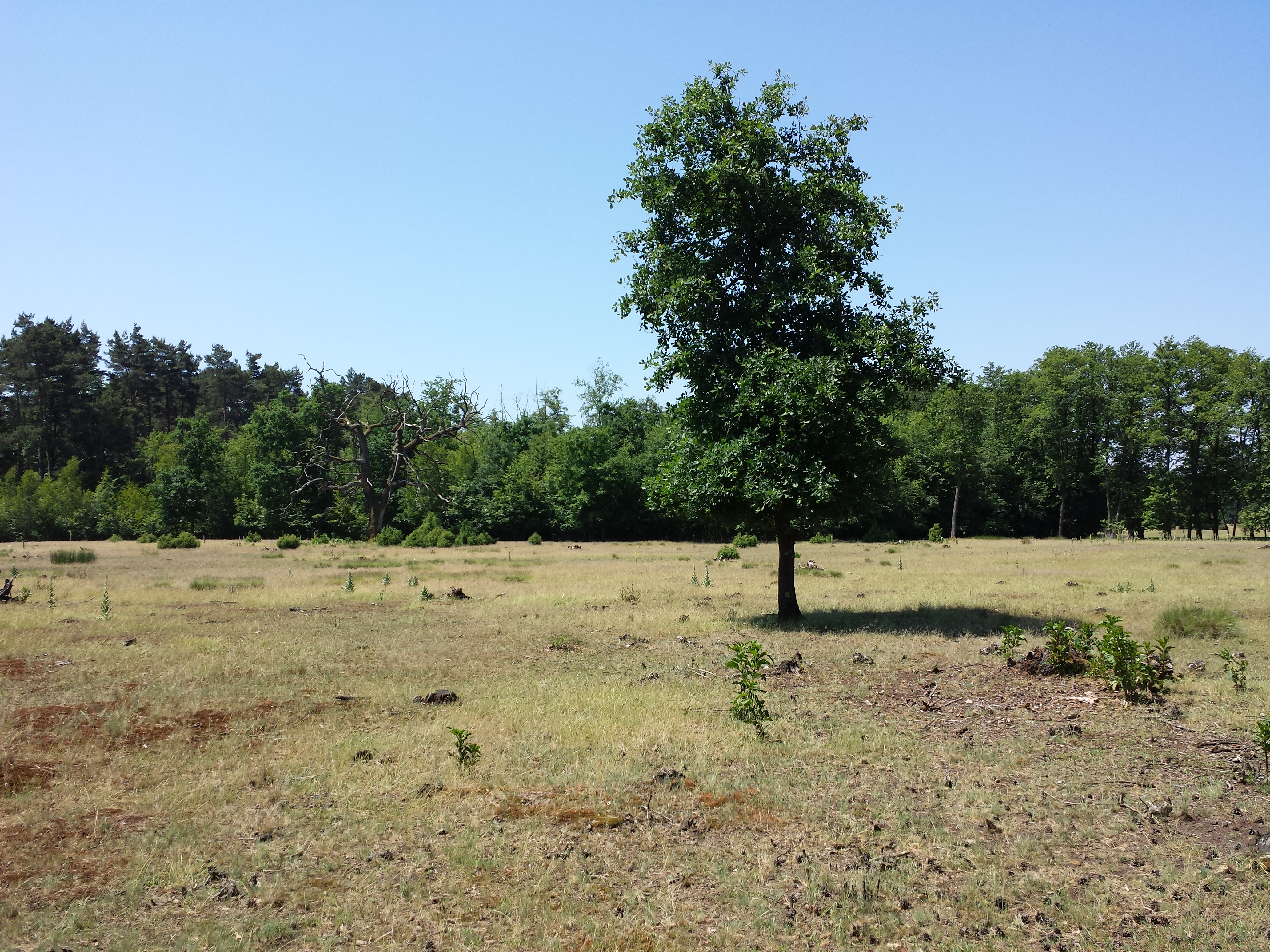 Dry grassland on acid sand near Darány, Somogy County, Hungary - ca. 130 m a.s.l.